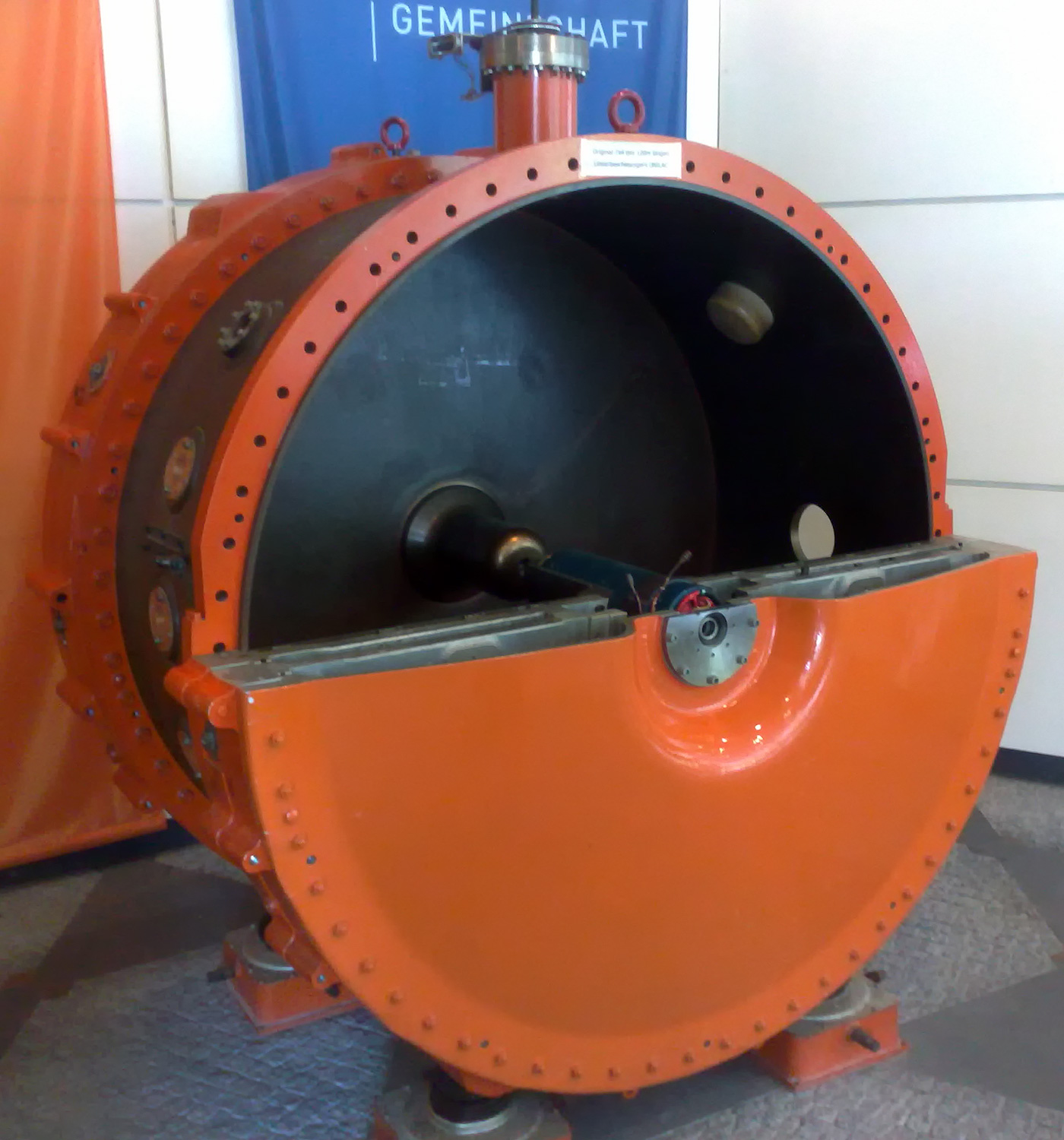 original part of UNILAC